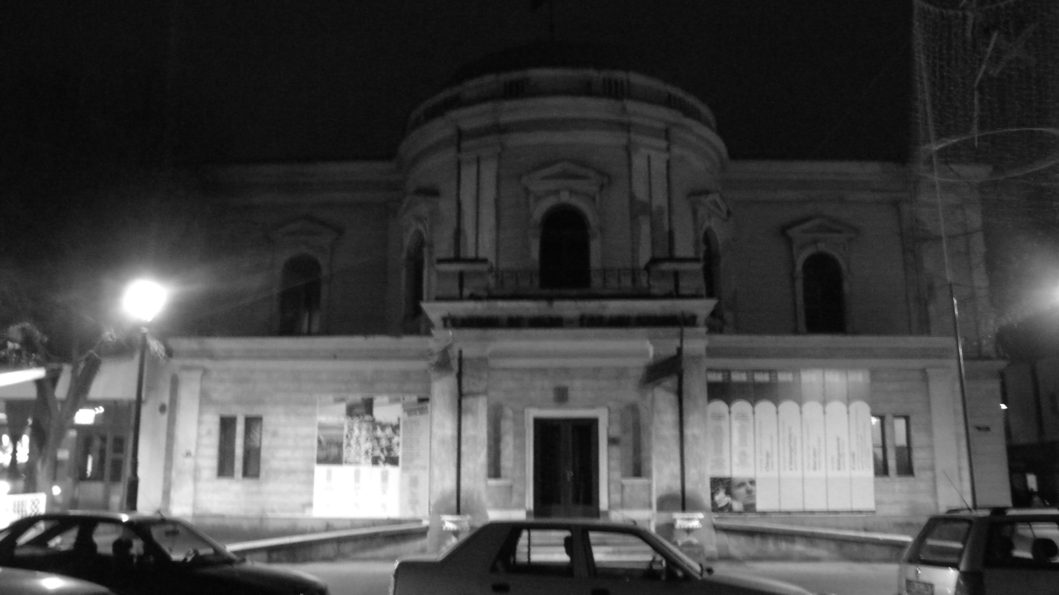 North Theater